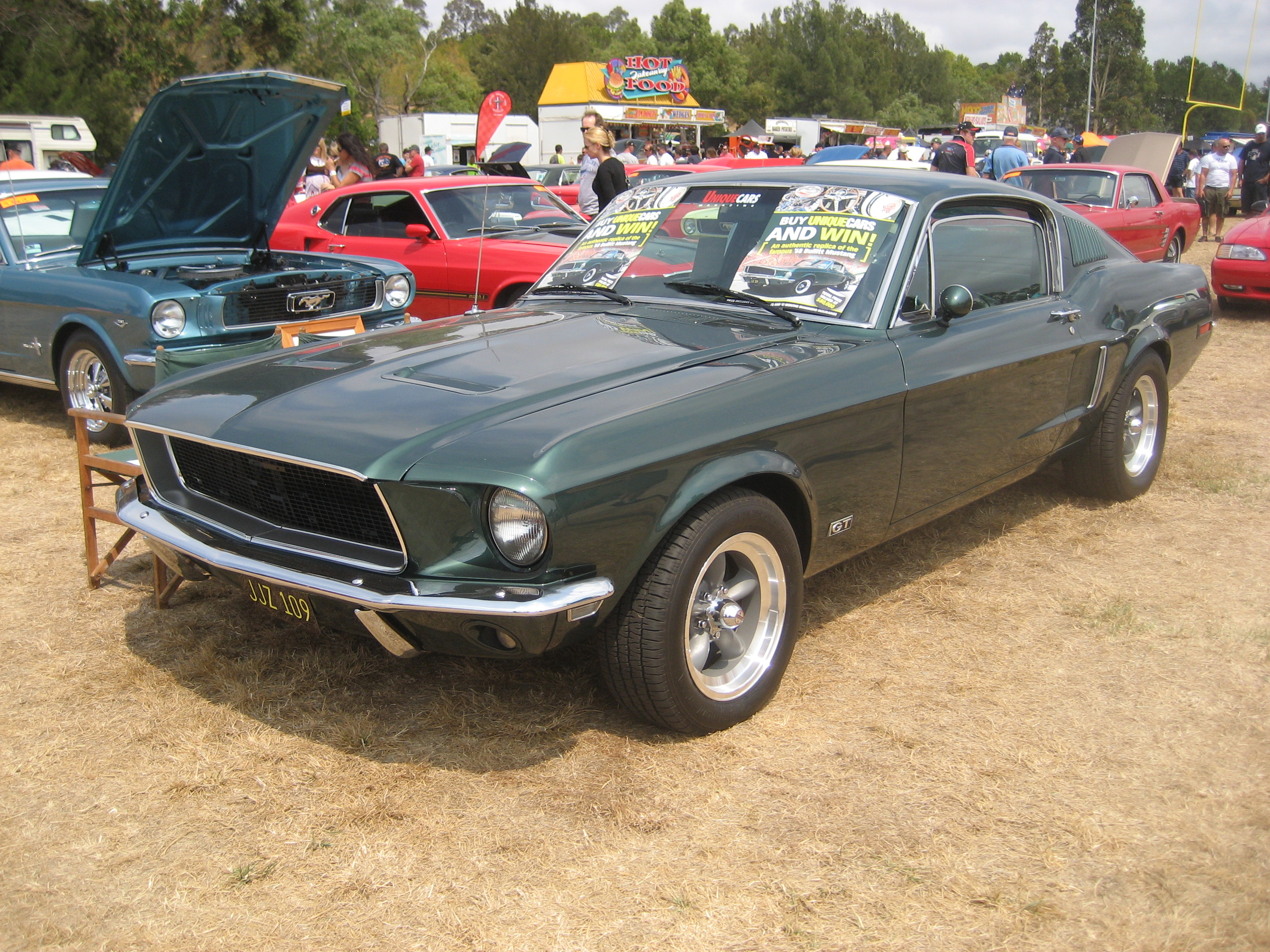 Highland Green. Replica of the Mustang in the movie Bullitt starring Steve McQueen (1st movie car chase) Engine; 325bhp 390 V8